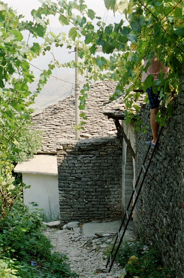 Harvesting of grapes in Gjirokastra, Albania